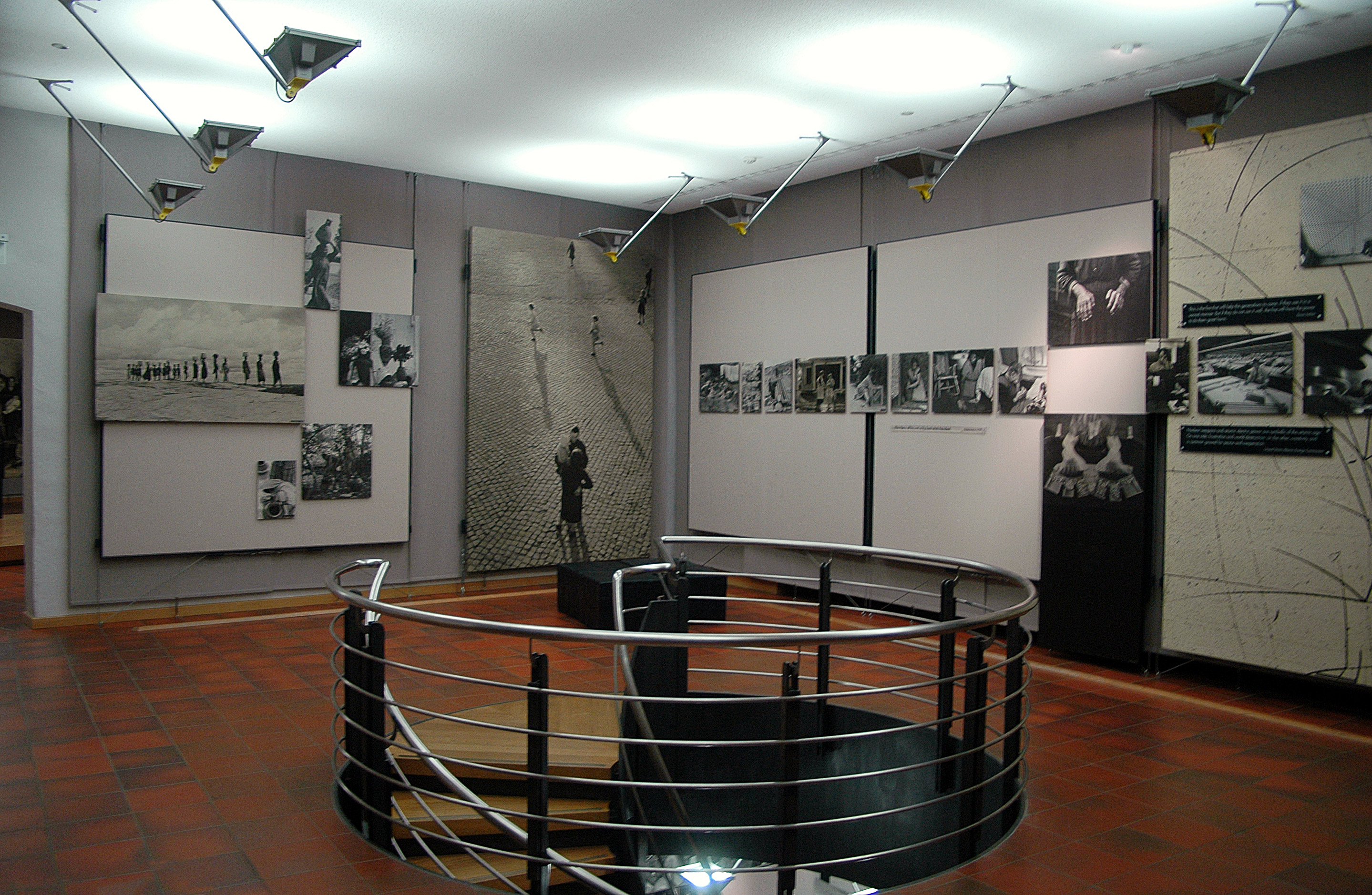 The photography exhibition 'The family of man' at Clervaux castle in Luxembourg.